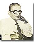 W_A_Silva.jpg